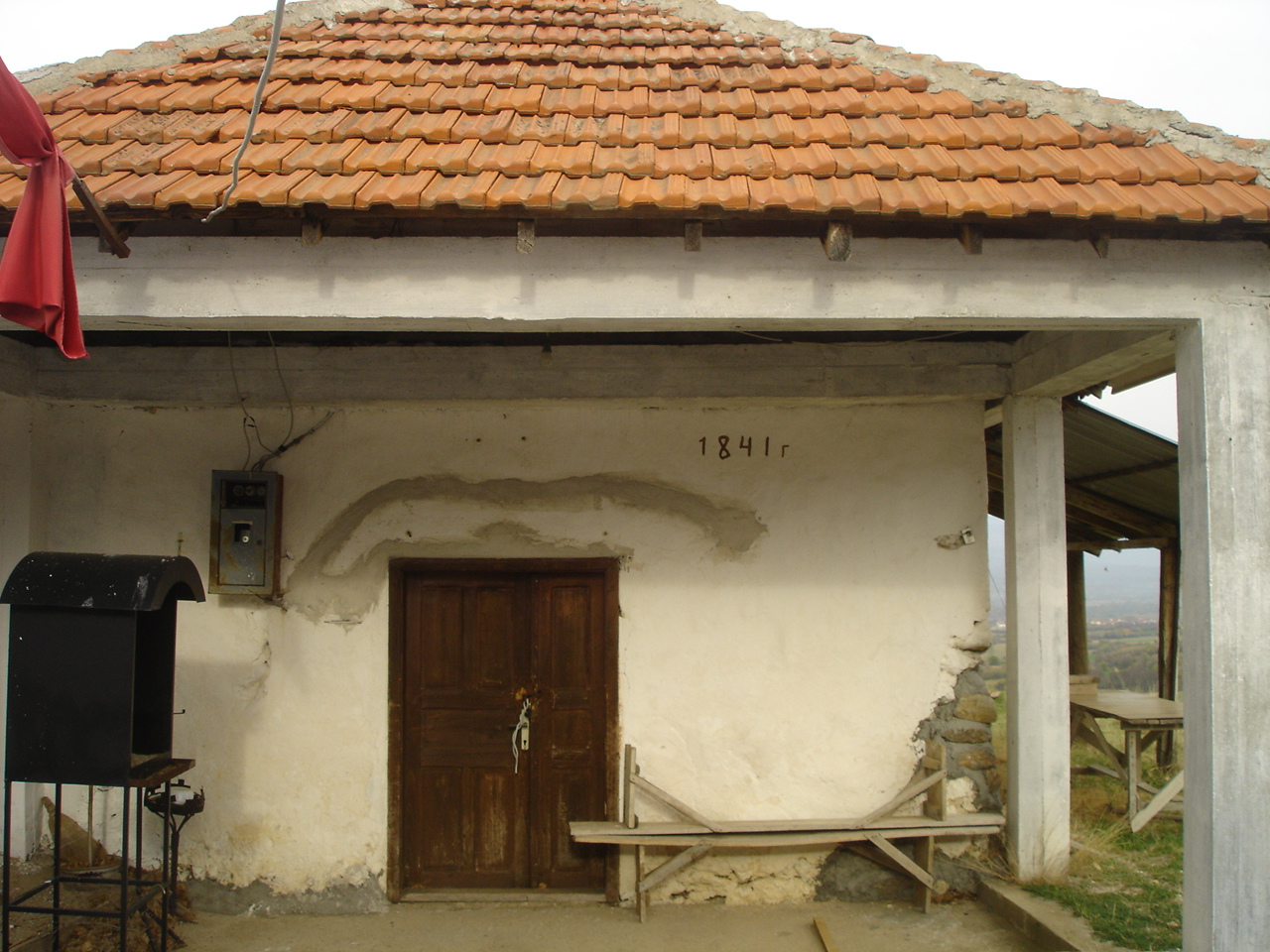 The old church above the village of Suldurci, near Radovish, Macedonia